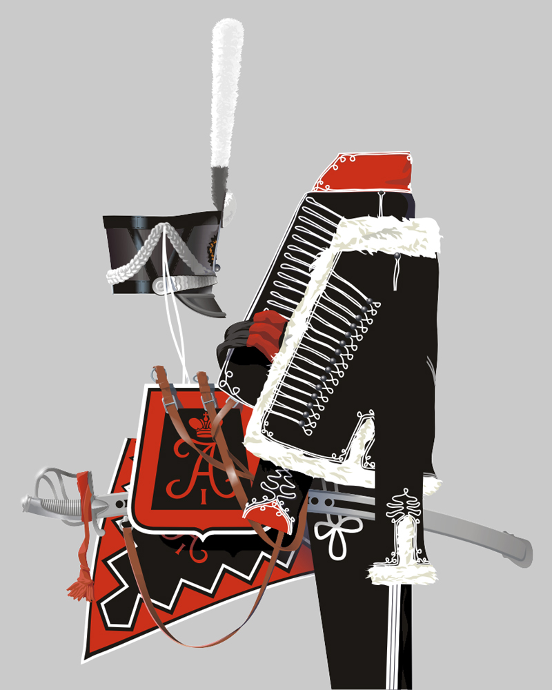 Trooper of Alexandria Hussar regiment’s full dress: dolman, pelisse, barrel sash, breeches, shako (here of 1812), shabraque, sabretache & sabre. Russian army of 1812